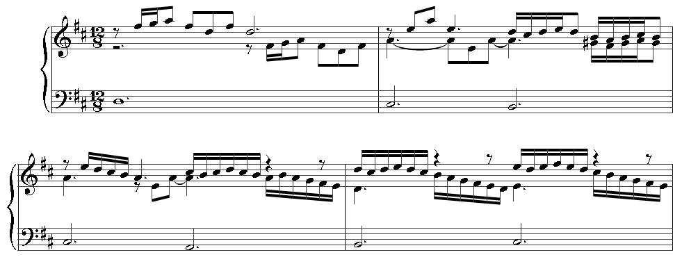 First bars of Von Himmel hoch, da komm' ich her by Johann Pachelbel (1653-1706), from Erster Theil etlicher Choraele. Typeset in Sibelius 4 by Jashiin.